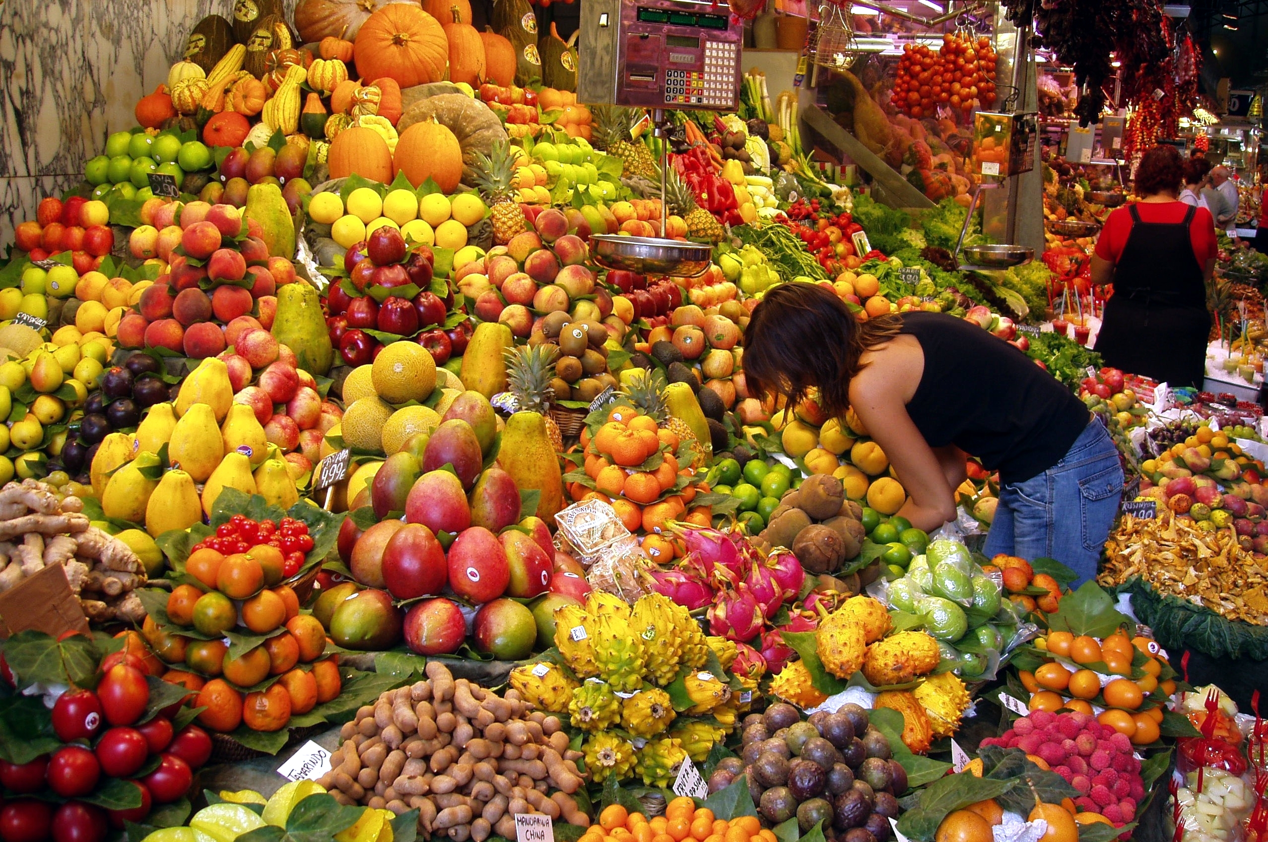 Fruit stall in a market in Barcelona, Spain.